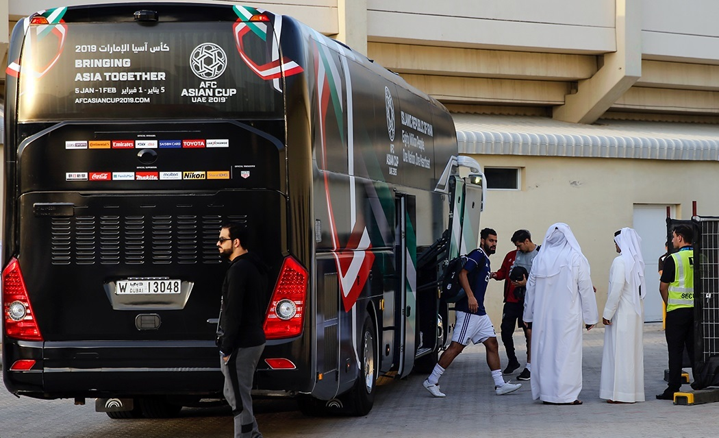 Iran training before Iraq match, 2019 AFC Asian Cup